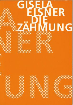 Book cover of Gisela Elsner "Die Zähmung" (Verbrecher Verlag, 1984)